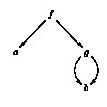 a dag representing the term f(a,g(b,b))